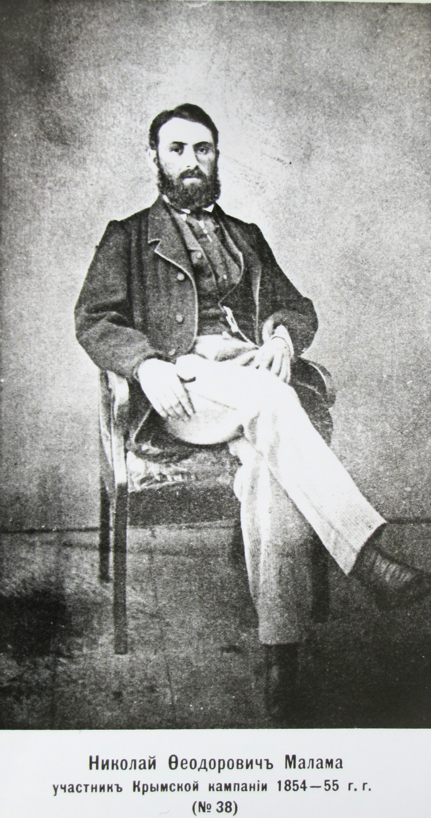 Nikolaj Feodorovich Malama